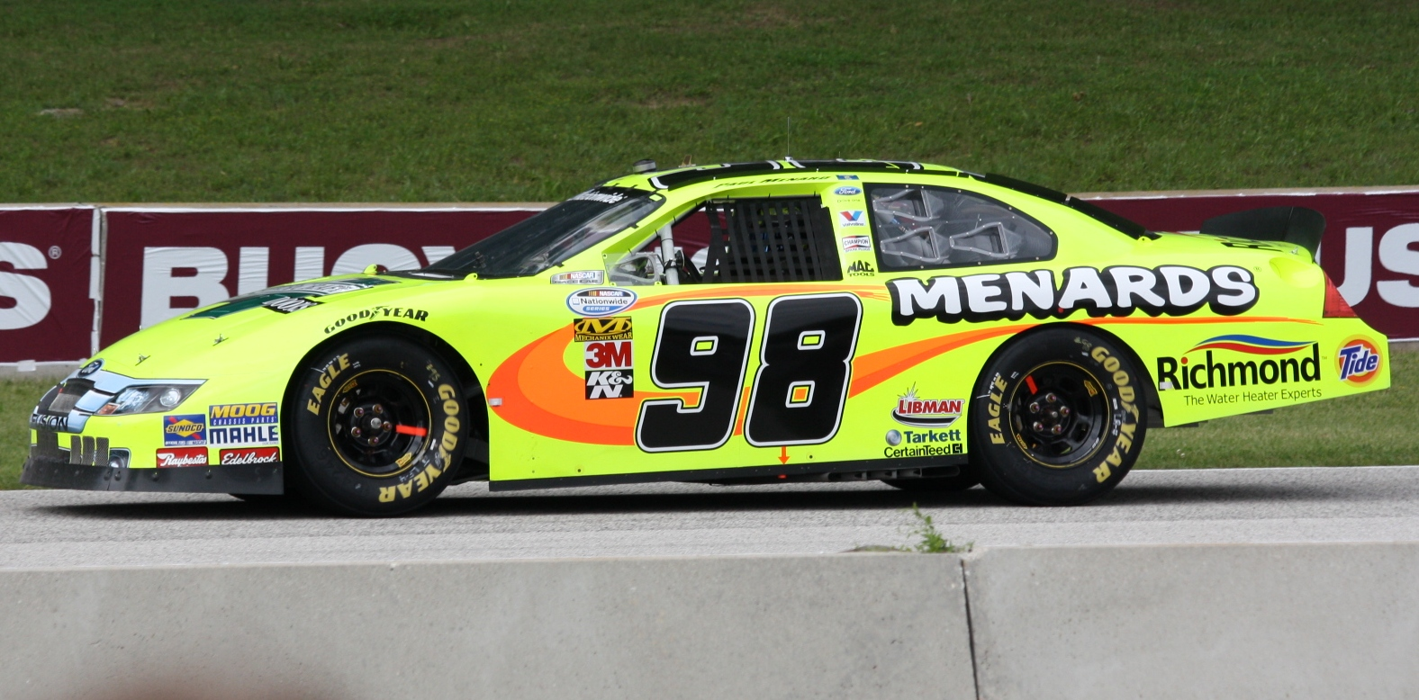 The NASCAR racecar for driver Paul Menard at the 2010 Bucyrus 200 at Road America.